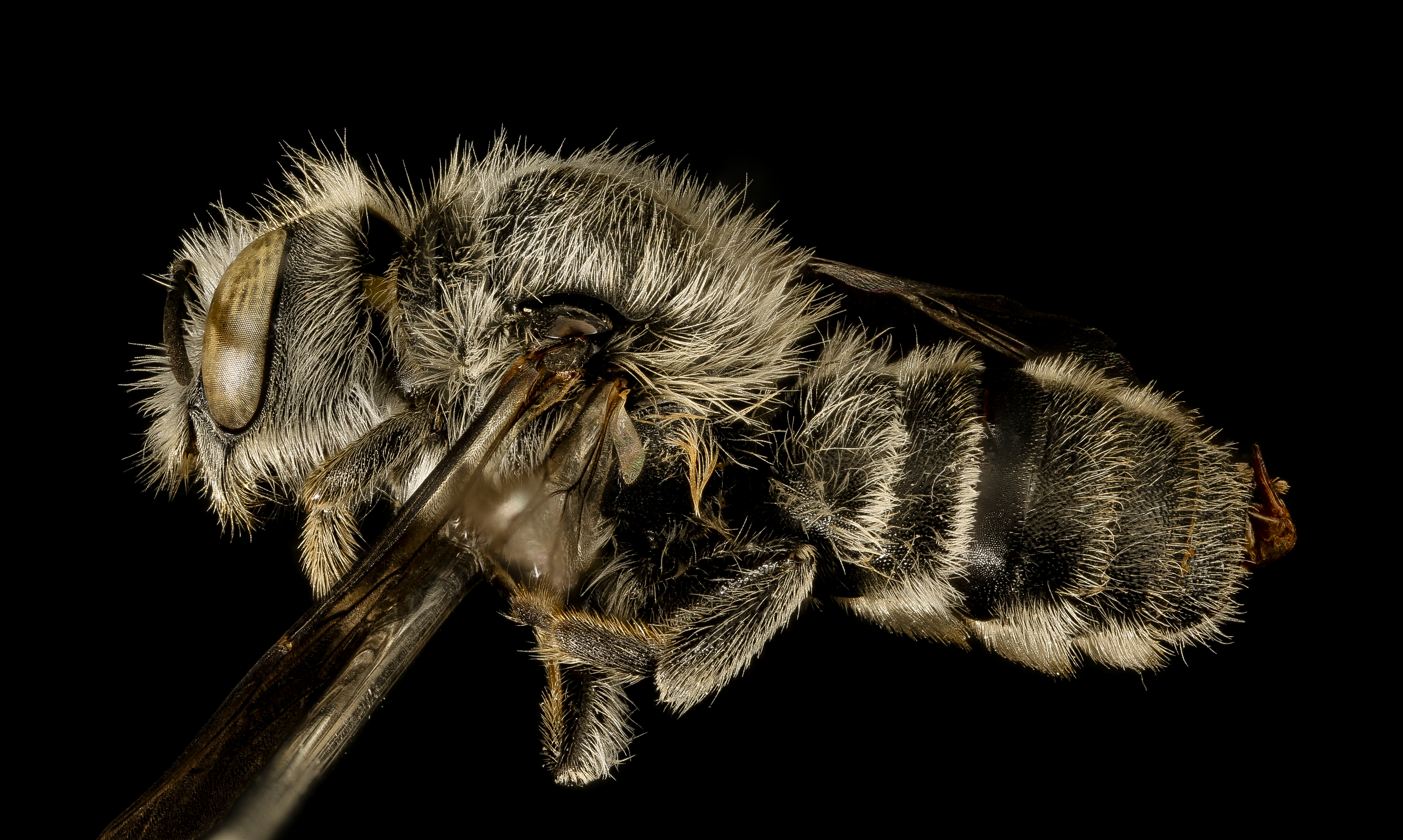 Hoplitis anthocopoides - relatively recently introduced species into North America, this is a bee who specializes in the equally introduced plant Vipers Bugloss (Echium vulgare). Perhaps because it is a plant specialist it is not recorded very often, but there are scattered records throughout eastern North America particularly in the north east and along the Appalachians. Theoretically it should spread throughout the range of its plant pollen host. The specimen represents the first record for the species in the state of Maryland and was collected in Washington County. Photography by Amanda Robinson. 15:47, 8 July 2016 (UTC)15:47, 8 July 2016 (UTC) 0 15:47, 8 July 2016 (UTC)15:47, 8 July 2016 (UTC) All photographs are public domain, feel free to download and use as you wish. Photography Information: Canon Mark II 5D, Zerene Stacker, Stackshot Sled, 65mm Canon MP-E 1-5X macro lens, Twin Macro Flash in Styrofoam Cooler, F5.0, ISO 100, Shutter Speed 200 Beauty is truth, truth beauty - that is all Ye know on earth and all ye need to know " Ode on a Grecian Urn" John Keats You can also follow us on Instagram - account = USGSBIML Want some Useful Links to the Techniques We Use? Well now here you go Citizen: Art Photo Book: Bees: An Up-Close Look at Pollinators Around the World Basic USGSBIML set up: USGSBIML Photoshopping Technique: Note that we now have added using the burn tool at 50% opacity set to shadows to clean up the halos that bleed into the black background from "hot" color sections of the picture. PDF of Basic USGSBIML Photography Set Up: ftp://ftpext.usgs.gov/pub/er/md/laurel/Droege/How%20to%20Take%20MacroPhotographs%20of%20Insects%20BIML%20Lab2.pdf Google Hangout Demonstration of Techniques: or Excellent Technical Form on Stacking: Contact information: Sam Droege 301 497 5840